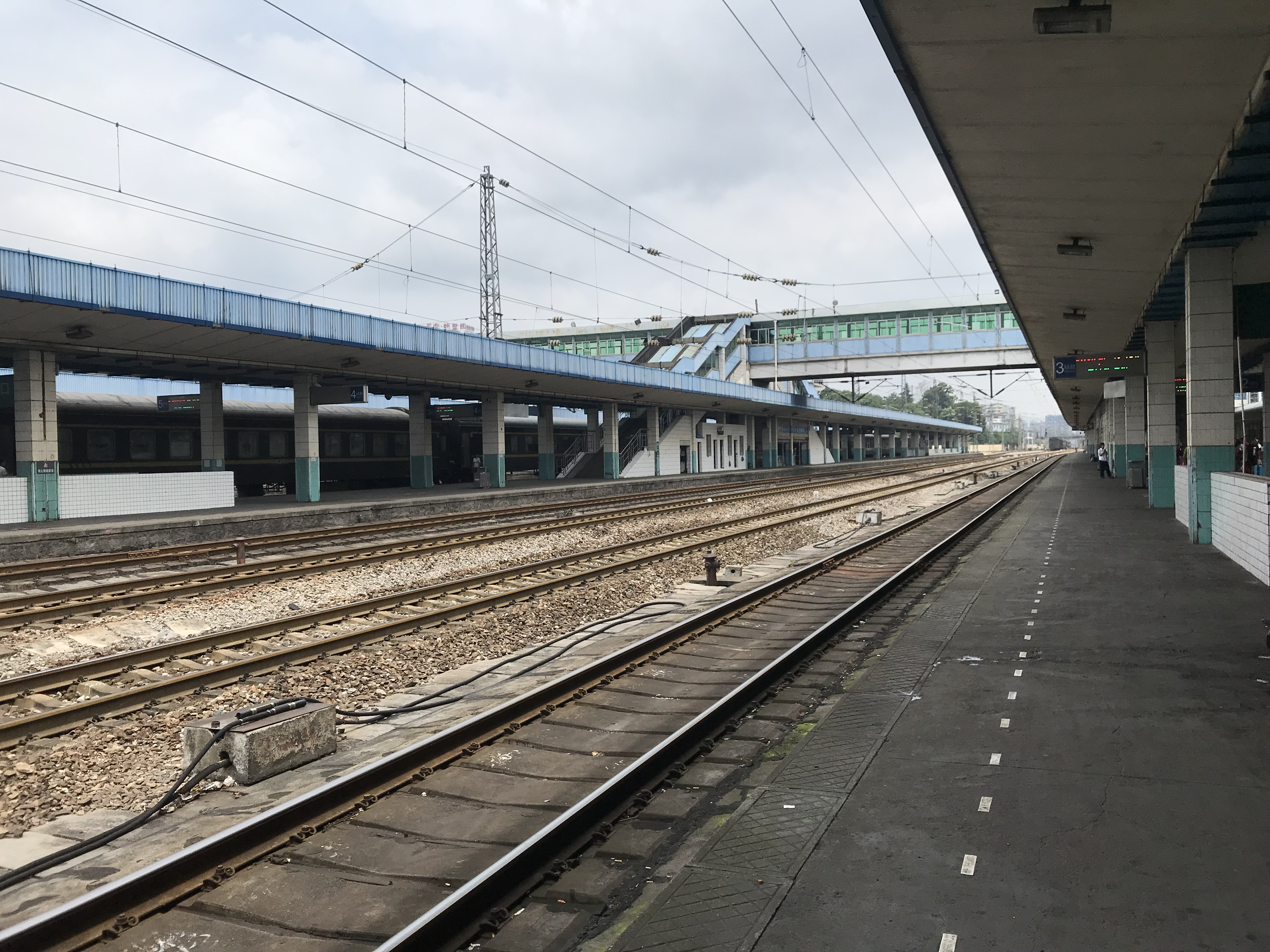 201908 Tracks at Huaihua Station